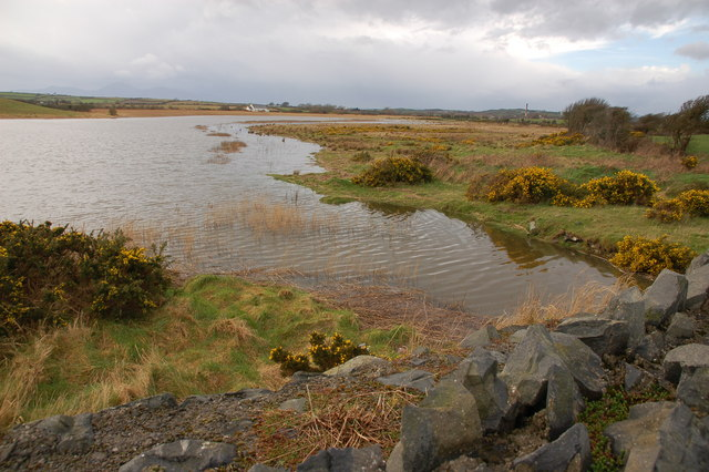 Coney Island near Killough (3) See 355713. This is the Strand Lough beside the Ardglass – Killough road at Coney Island. It has been declared an Area of Special Scientific Interest.